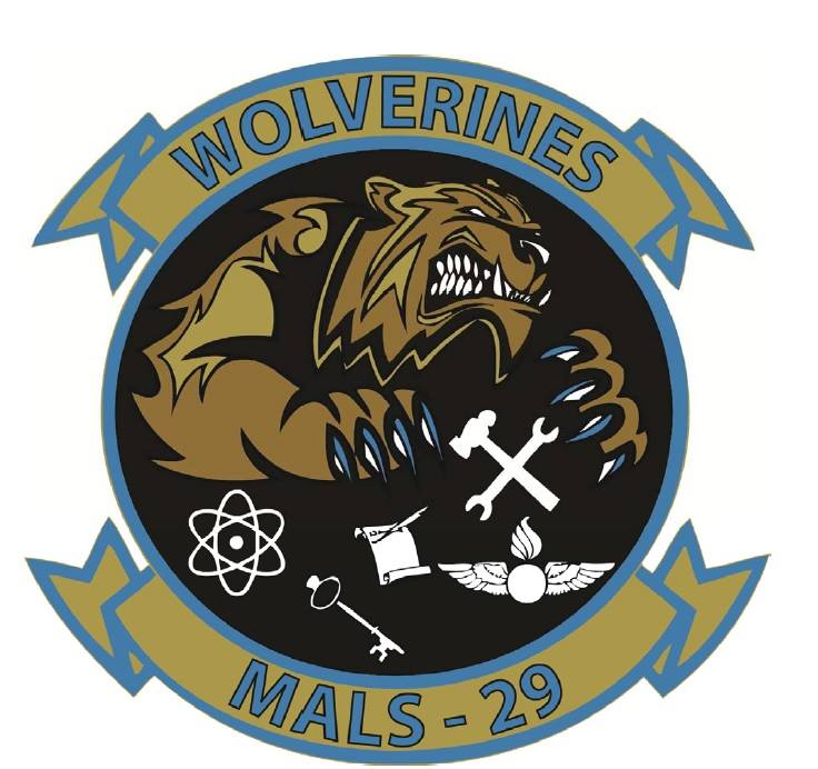 Official insignia for Marine Aviation Logistics Squadron 29